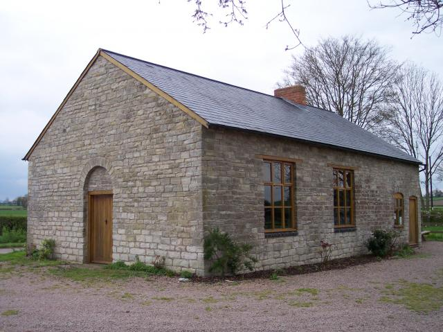 The oldest extant meetinghouse of The Church of Jesus Christ of Latter-day Saints in the world, Gadfield Elm Chapel, near the village of Pendock in Worcestershire, England.